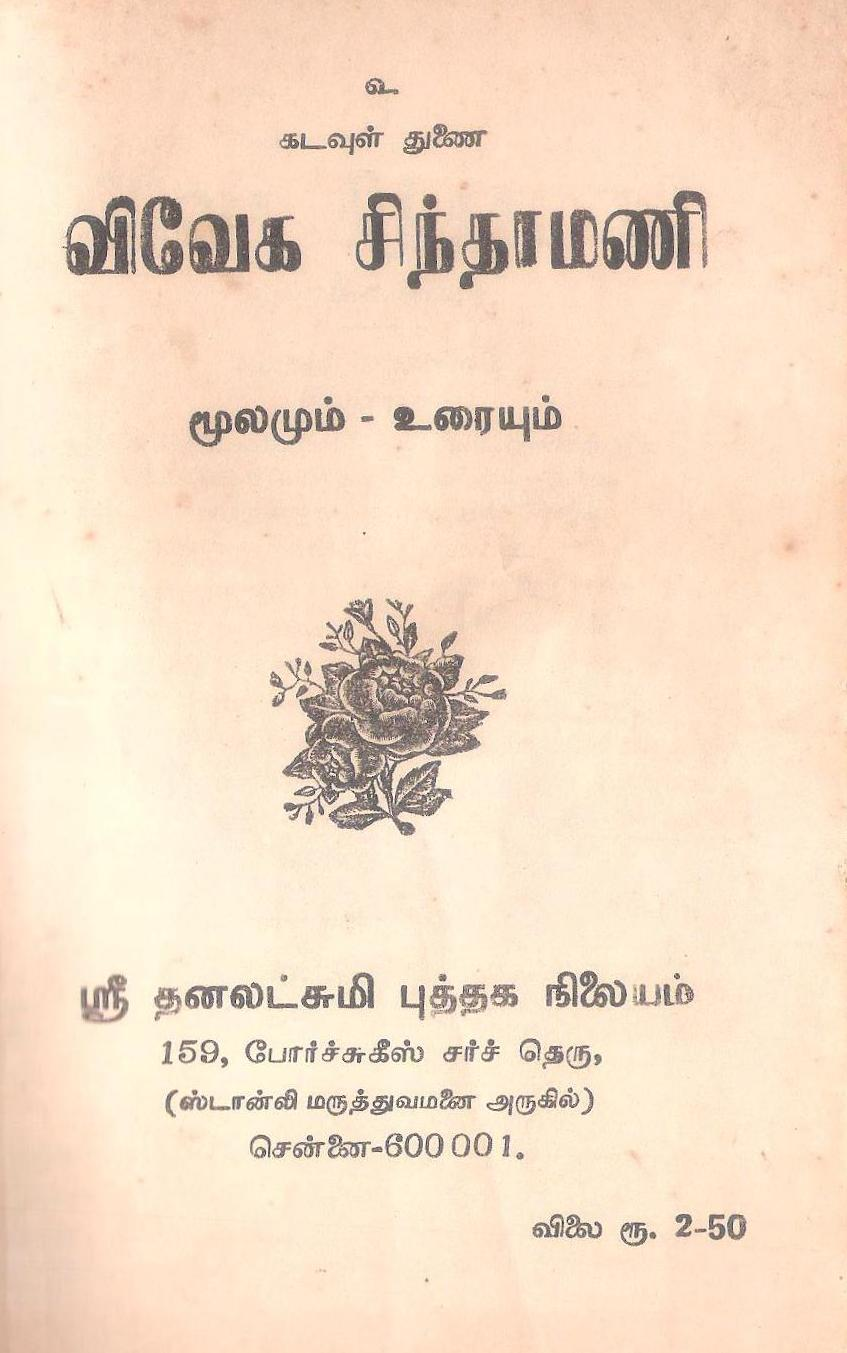 A Document of an ethic work in Tamil. விவேக சிந்தாமணி நூலின் முகப்பு